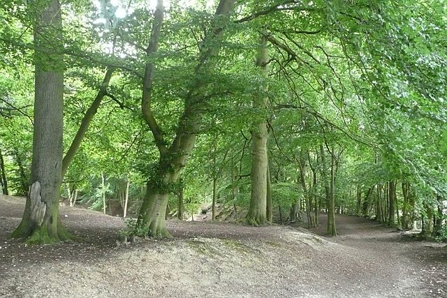 Mosshall Wood A beech wood with a number of old chalk pits. A wonderful playground.